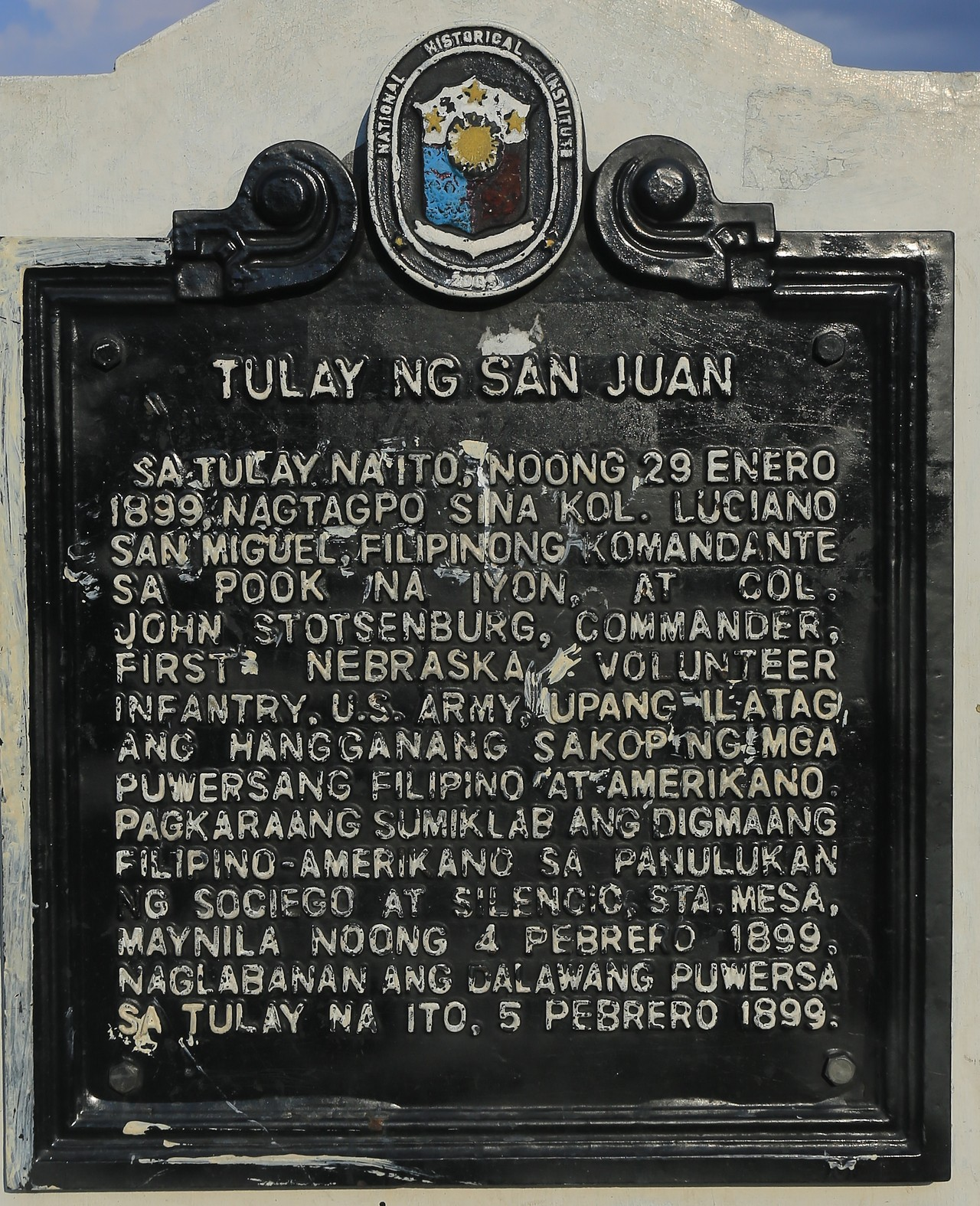 Tulay ng San Juan